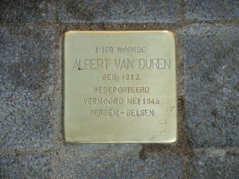 Stolpersteine Jehovah's witness Albert van Duren 07-04-2010 in Tiel/The Netherlands